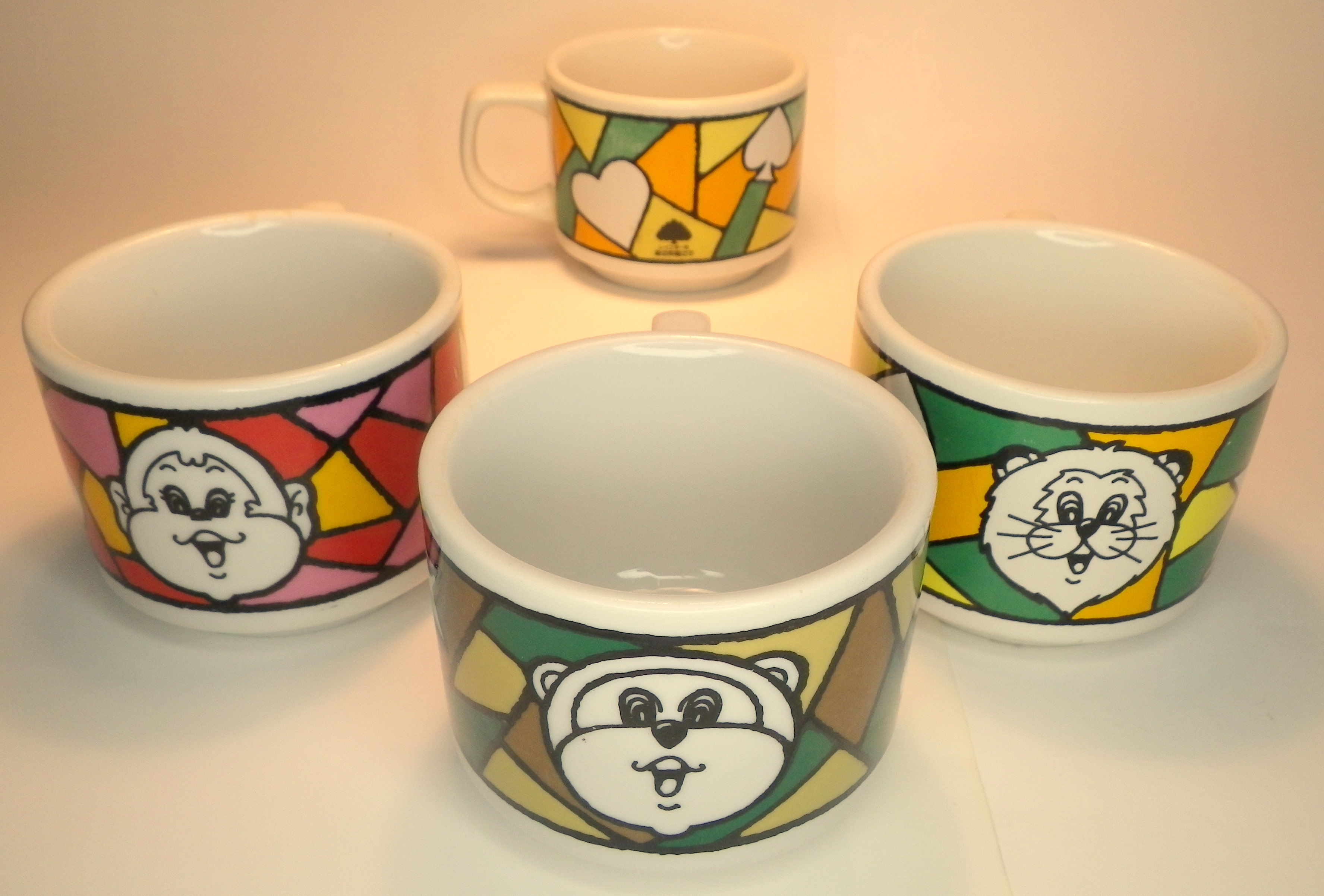 Mugs of ENDO CHAIN "Rainbow-mura Mori-no Nakama-tachi"